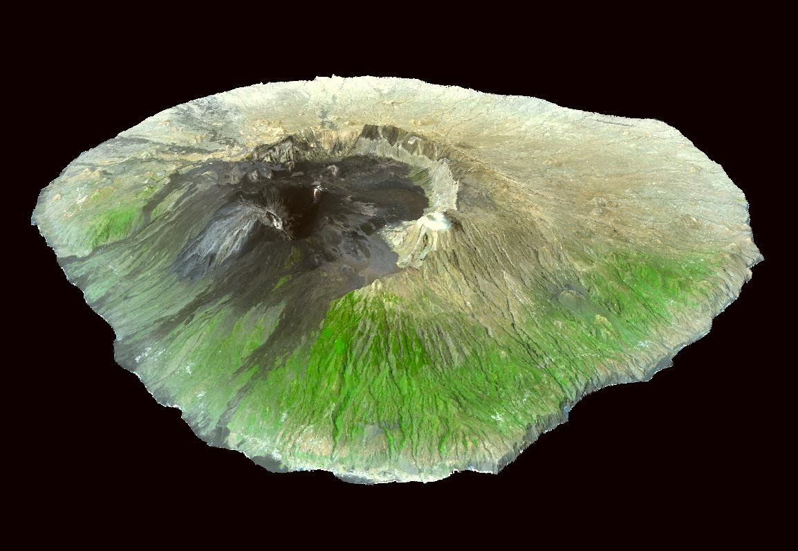 Fogo island, Cape Verde republic, Atlantic ocean. The image is centered near 14.9 degrees north latitude, 24.4 degrees west longitude. The perspective view was created by draping image data over a DEM derived from ASTER data, and exaggerating the topographic relief by a factor of 2.